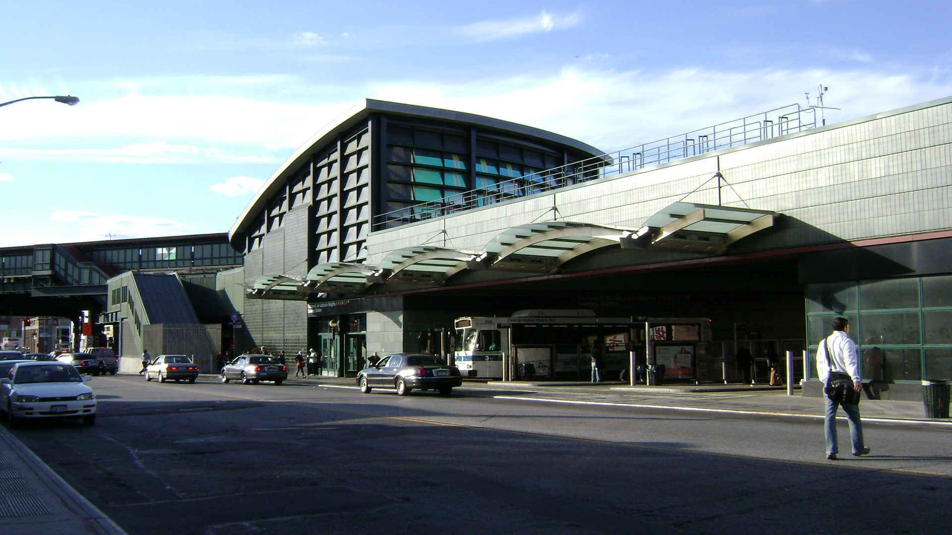 The stationhouse at the Jackson Heights-Roosevelt Avenue/74th Street subway station.